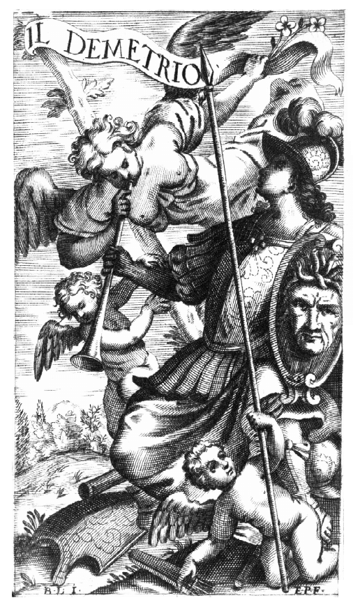 Johann Adolph Hasse - Demetrio - picture from the libretto - Venice 1737